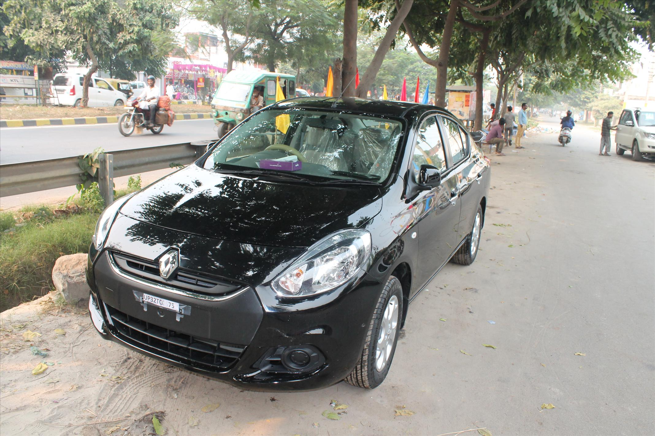 Renault Duster 2013 model Indian edition with Nissan 1.5L dci engine